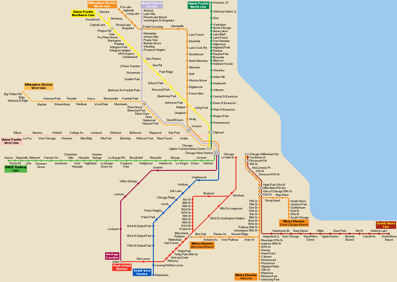 The Chicago Metra commuter rail system. Map created by A435(m). Attribution required for all uses. made this image. As long as you retain this notice you can do whatever you want with this image, except. If we meet some day, and you think this image is worth it, you can buy me a beer in return.